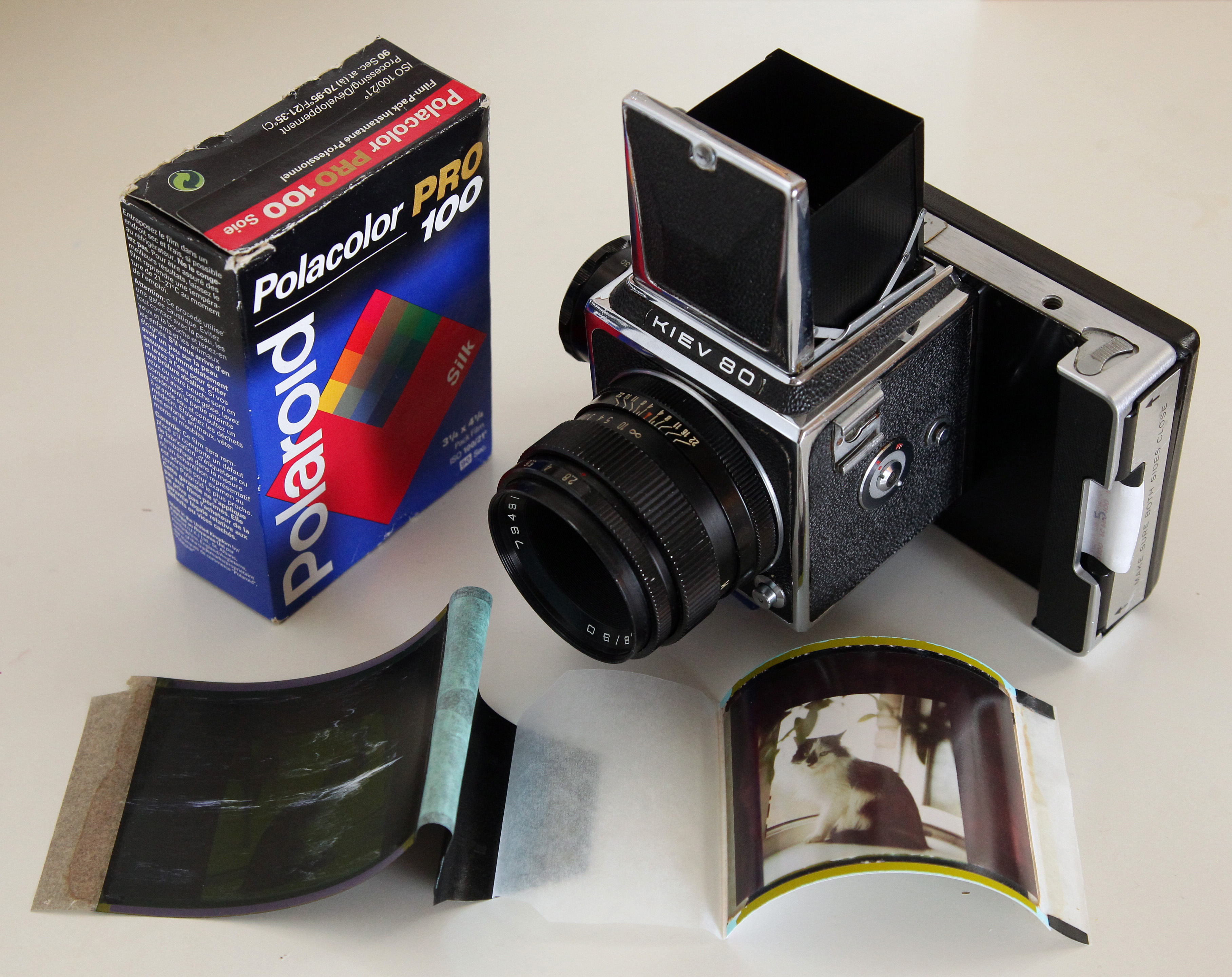 Kiev-80 SLR with Arca-Swiss Polaroid back and exposed sheet of Polacolor PRO 100 film.